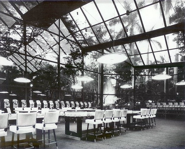 Tropicana Club_1. Havana cuba.